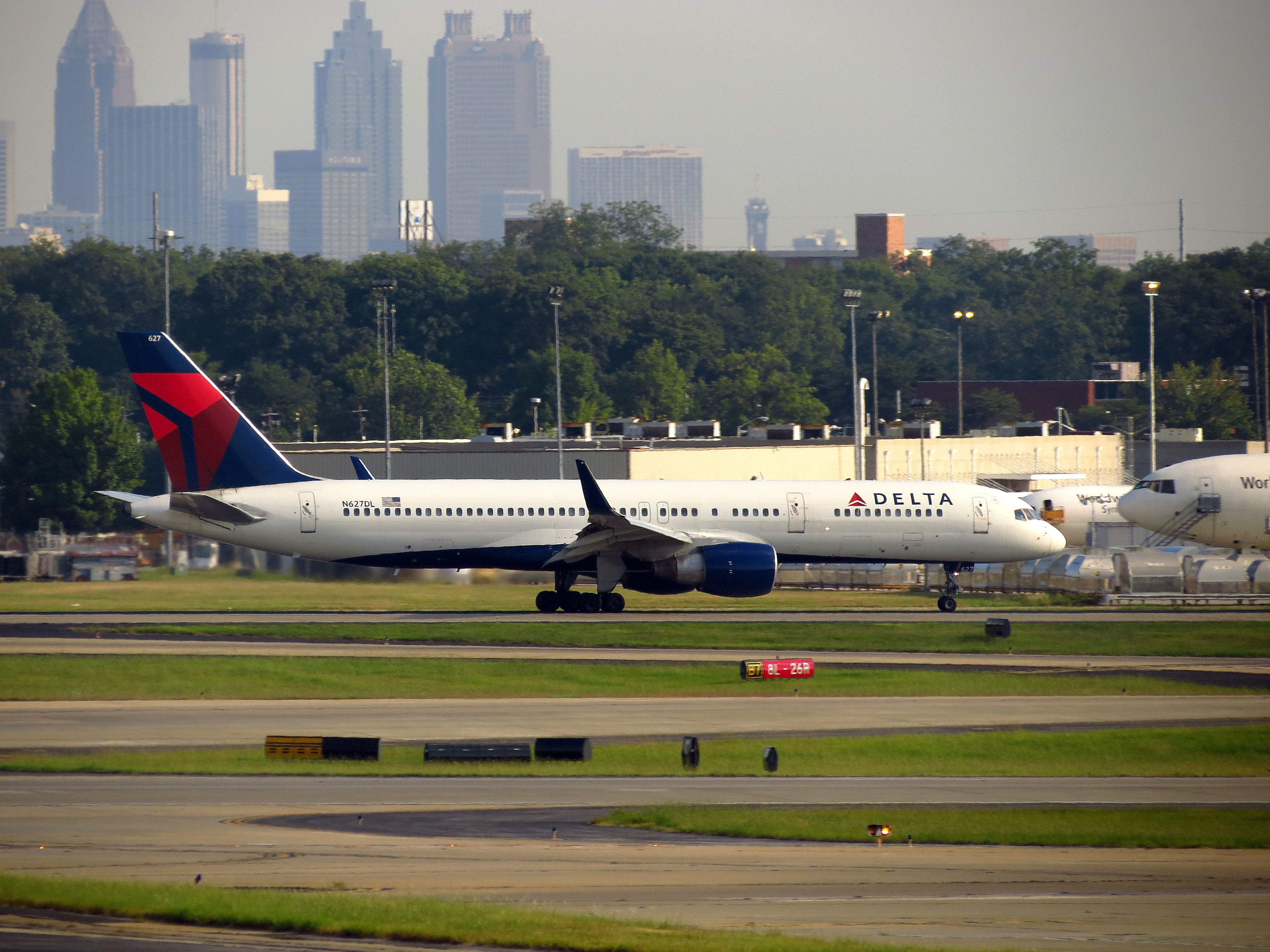 Delta Air Lines Boeing 757-200 at Hartsfield-Jackson Atlanta International Airport with the skyline in background